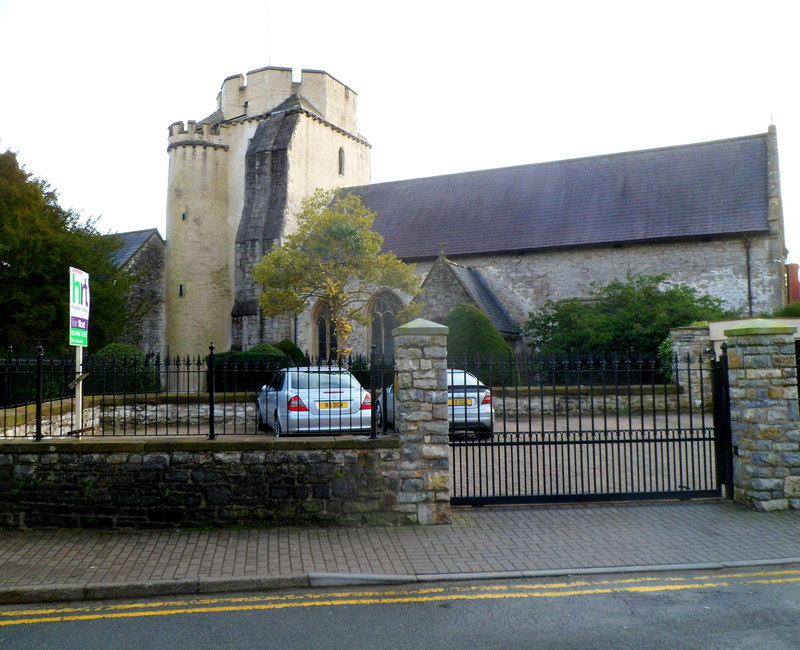 Grade I listed Holy Cross Parish Church, Cowbridge